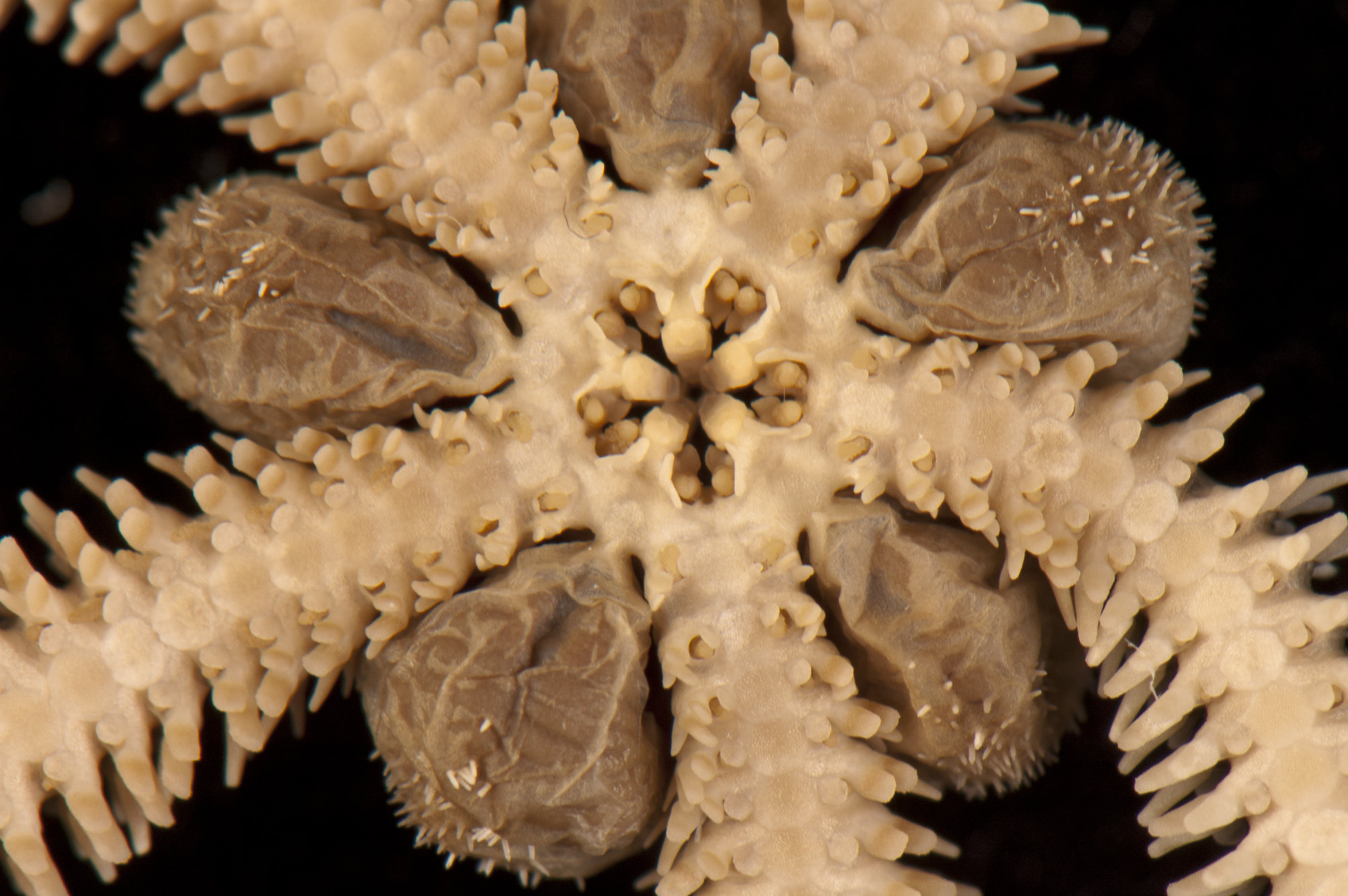 Ophiactis resiliens, brittle star, ventral disc.